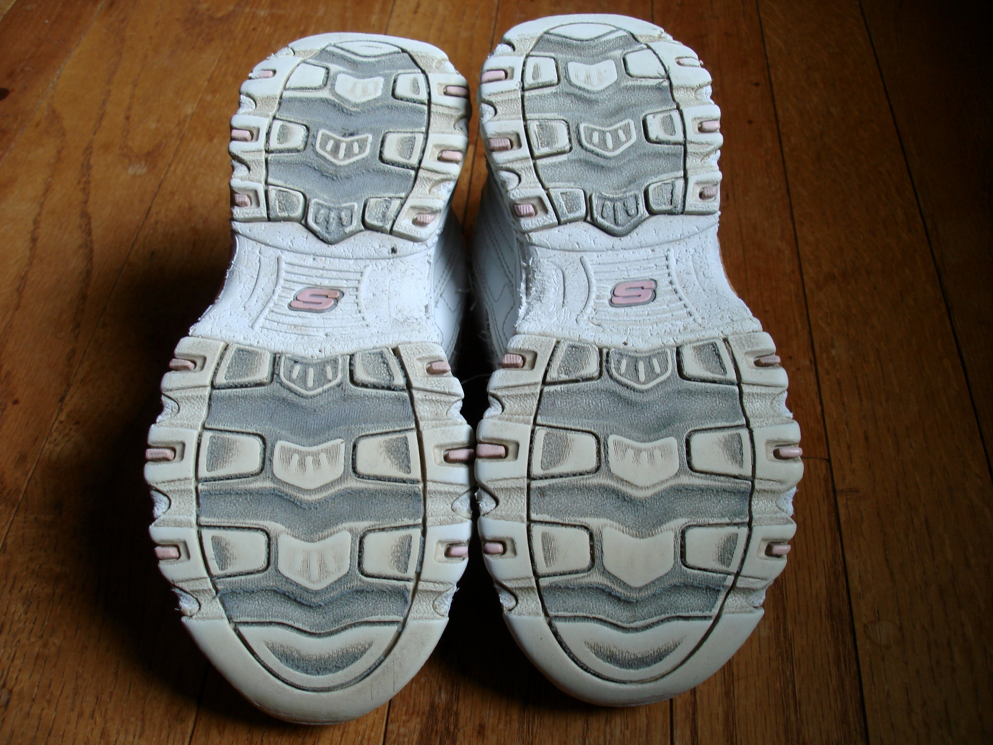 Soles of girl's sneakers